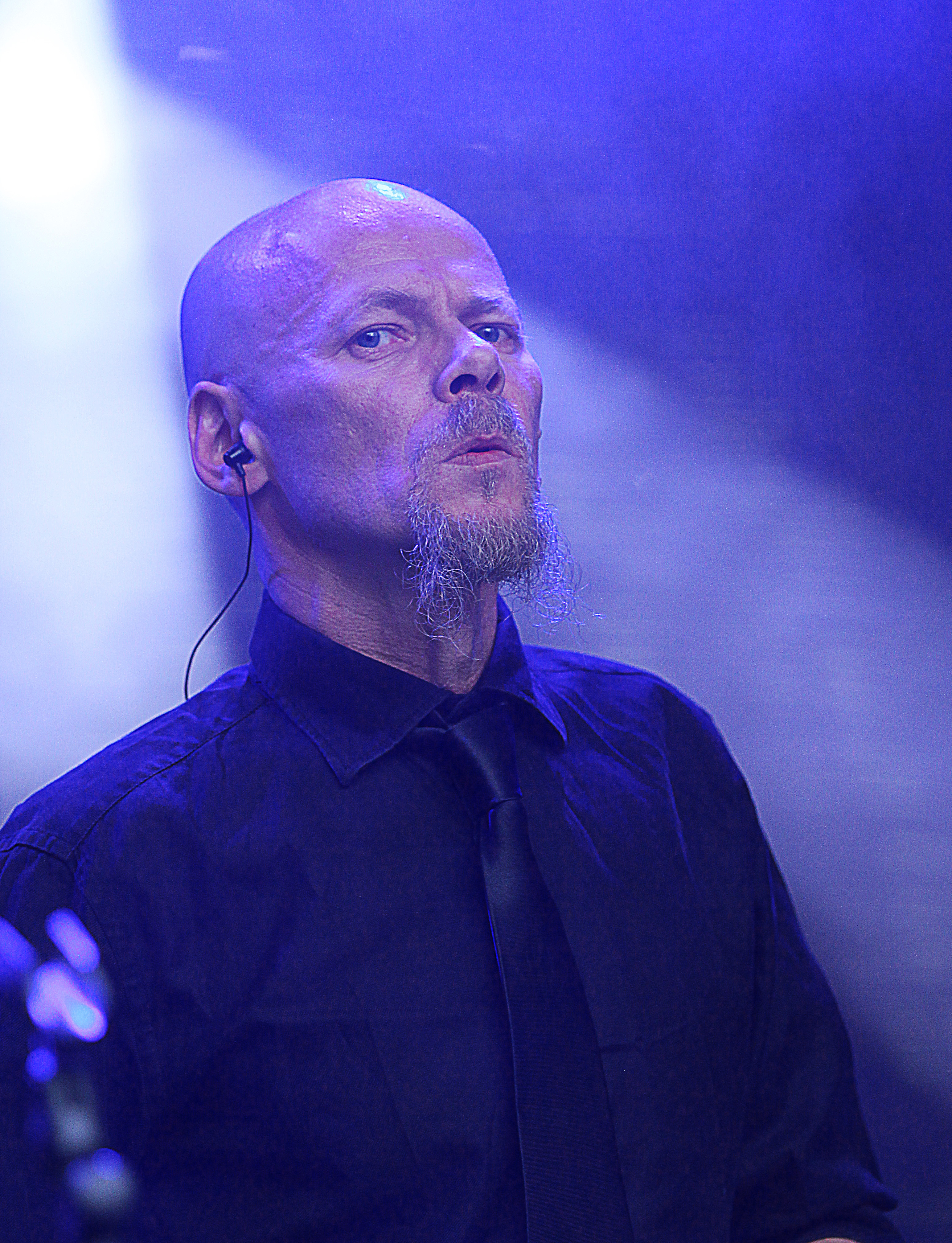 The Swedish dark ambient project In slaughter Natives at the Nocturnal Culture Night 9 2014 in Deutzen/Germany